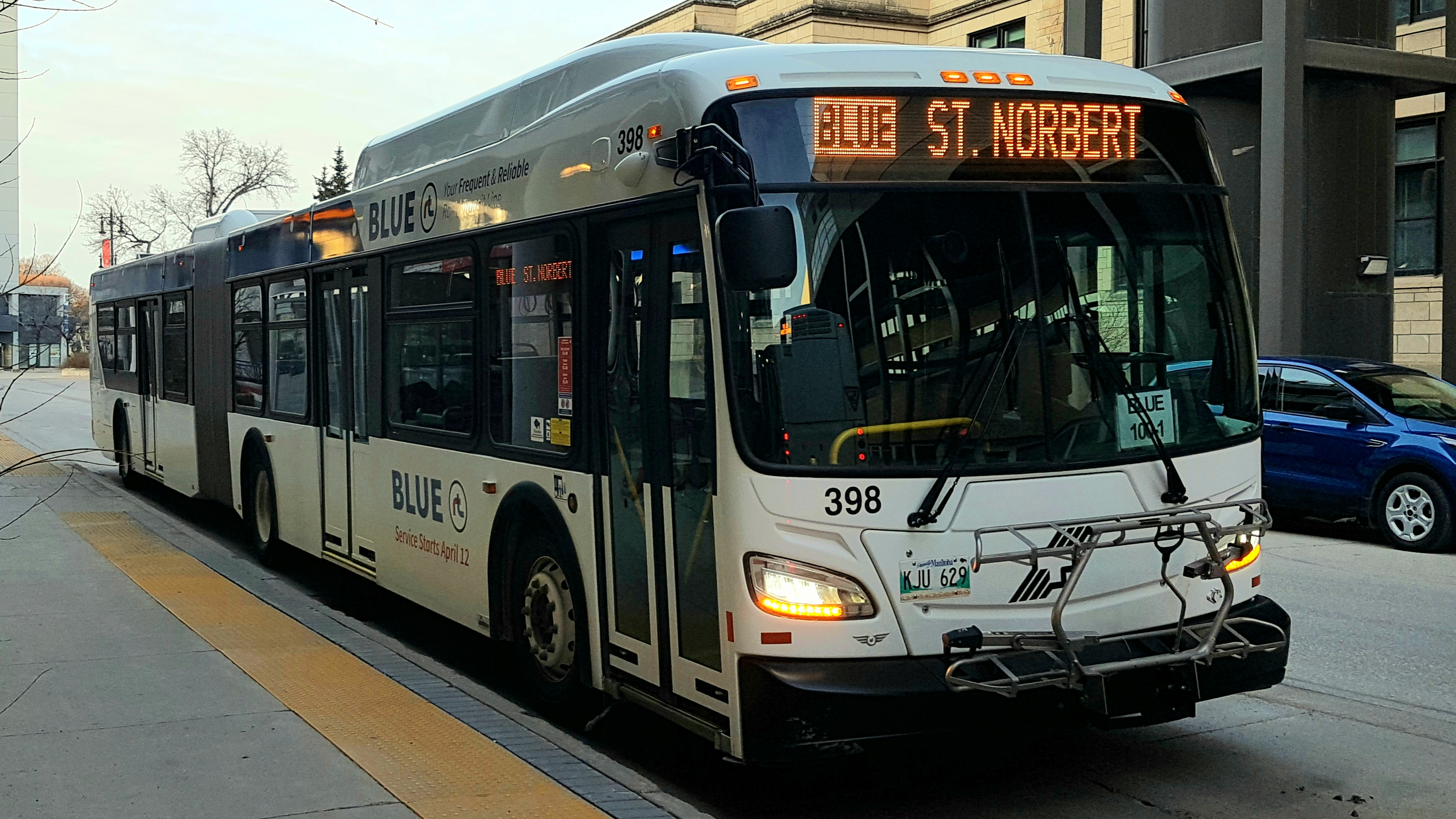 Winnipeg Transit BLUE Bus.